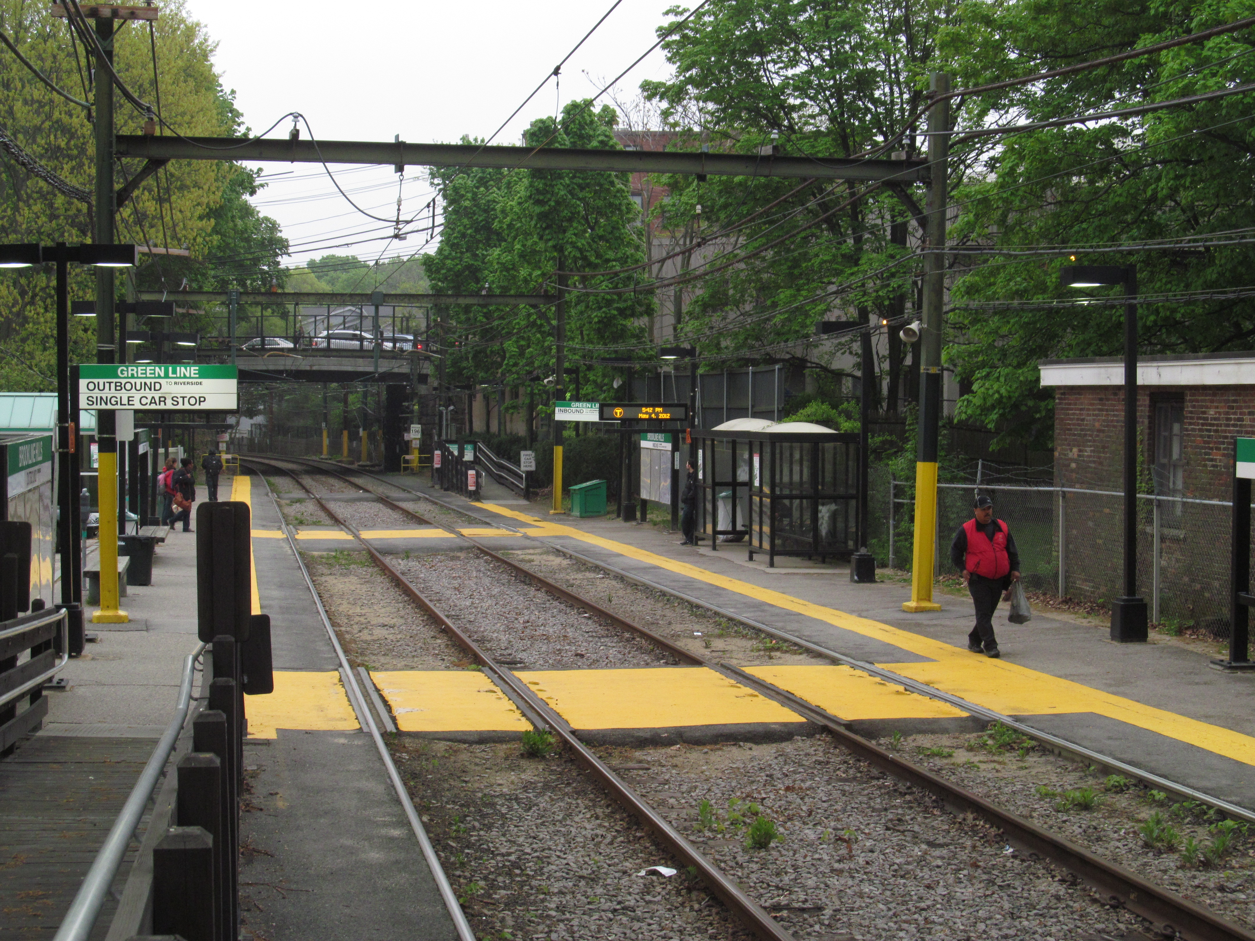 Looking inbound at Brookline Hills